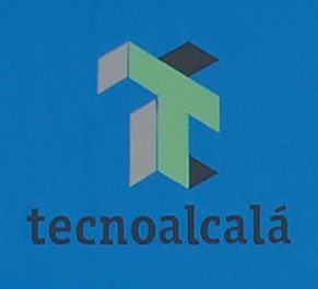 Logo of Tecnoalcalá (University of Alcalá), in Alcalá de Henares (Community of Madrid - Spain).